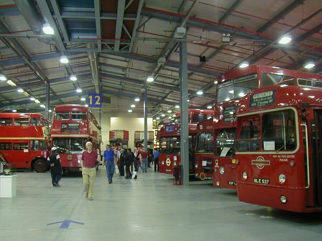 Preserved London buses of various eras, pictured inside the Acton depot of the London Transport Museum. Normally closed to the public, this picture was taken during an open weekend held at the depot on the 14th/15th of July, 2001. From left to right, the buses visible are an unidentified RT, FRM1 (KGY 4D), S742 (XM 7399), K424 (XC 8059), MBA582 (AML 582H), BL1 (KJD 401P), DMS1 (EGP 1J) & RF537 (NLE 537). As well as a fine collection of vintage buses, the depot also has a fine collection of trains and London Transport Signs. The depot is also the permanent store for the Museum's documents.